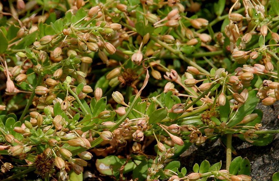 Glinus oppositifolius (syn. Mollugo oppositifolia, Mollugo spergula)- bitter cumin, bitter leaf, Indian chickweed •